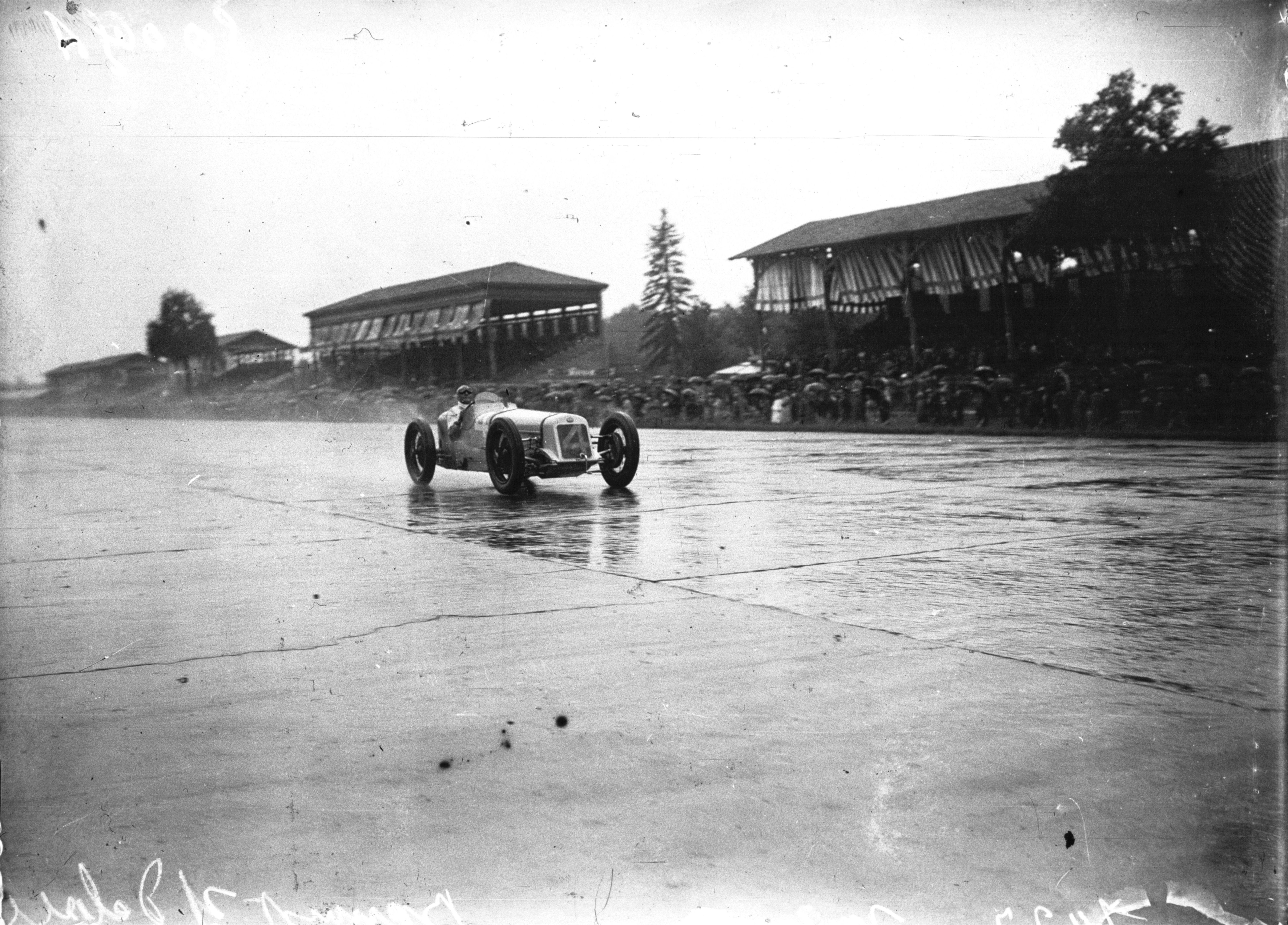 Robert Benoist at the 1927 Italian Grand Prix